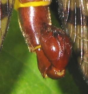 Author: soebe Date: July 15, 2005 Location: Eckernförde, Northern Germany